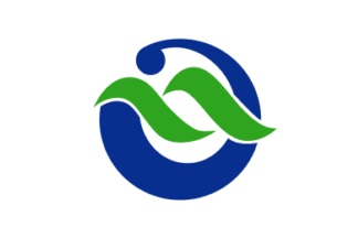 Flag of Nakatosa Kochi